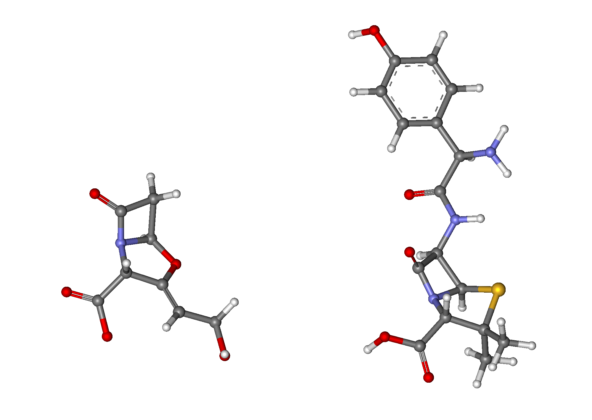 Ball-and-stick model of amoxicillin/clavulanic acid molecule. The structure is taken from ChemSpider. ID 4940608